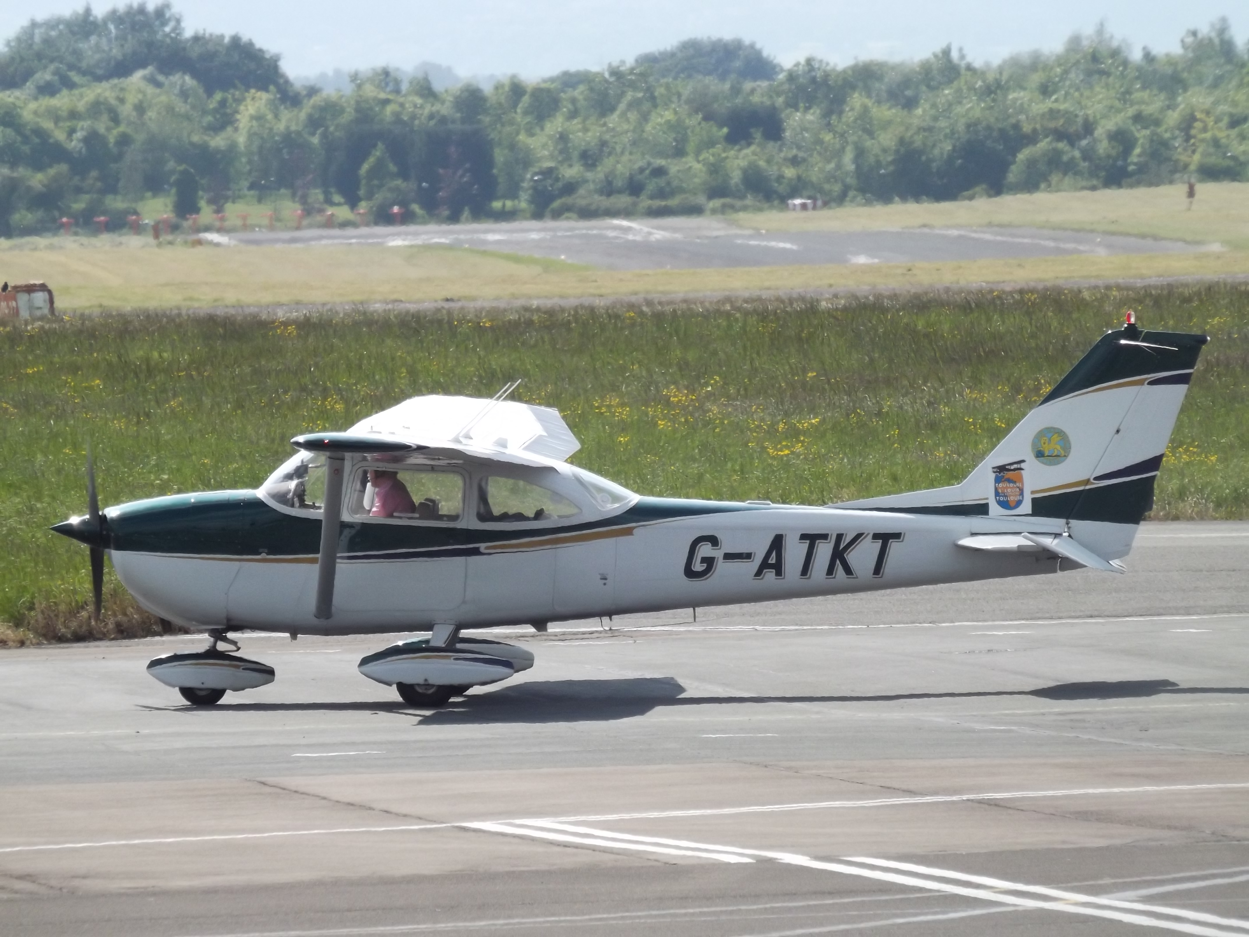 At Gloucestershire Airport.